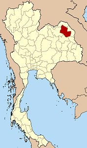 Map of Thailand highlighting Sakhon Nakhon province